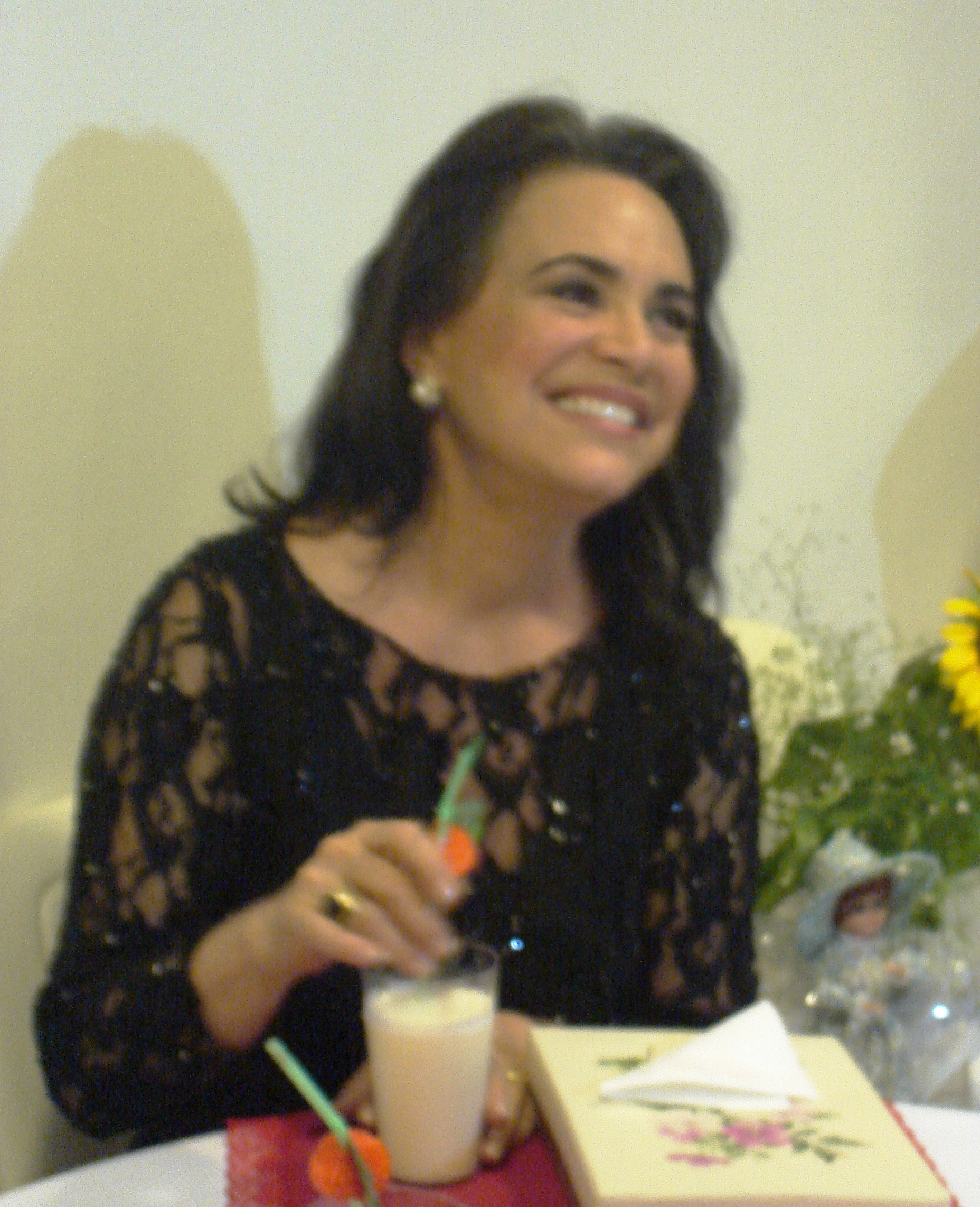 Picture from the Brazilian actress Regina Duarte, by her fan Leivison.